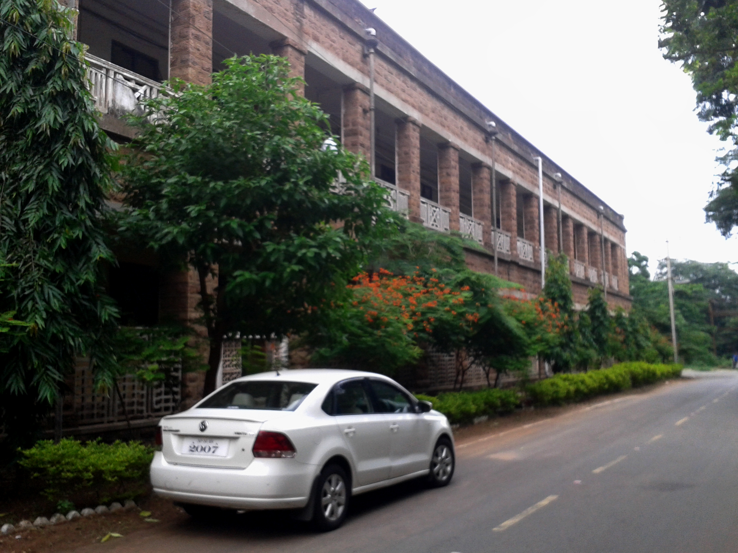 Buildings in Andhra University, Visakhapatnam, Andhra Pradesh